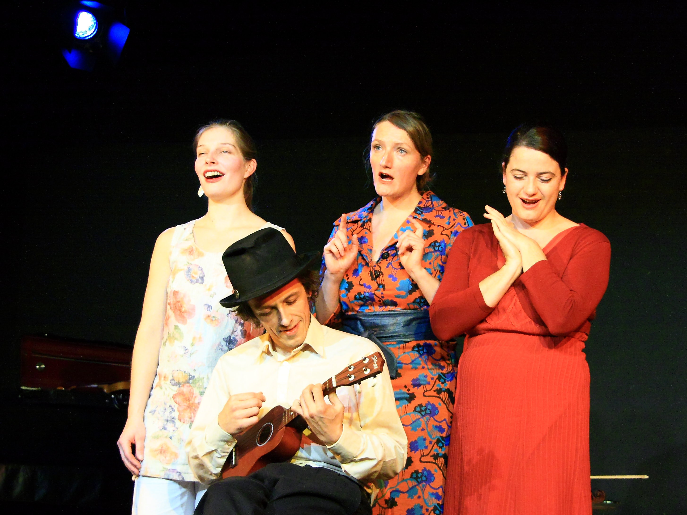 Concert of the bavarian folk-msic-group Zwirbeldirn at Kult, Niederstetten.